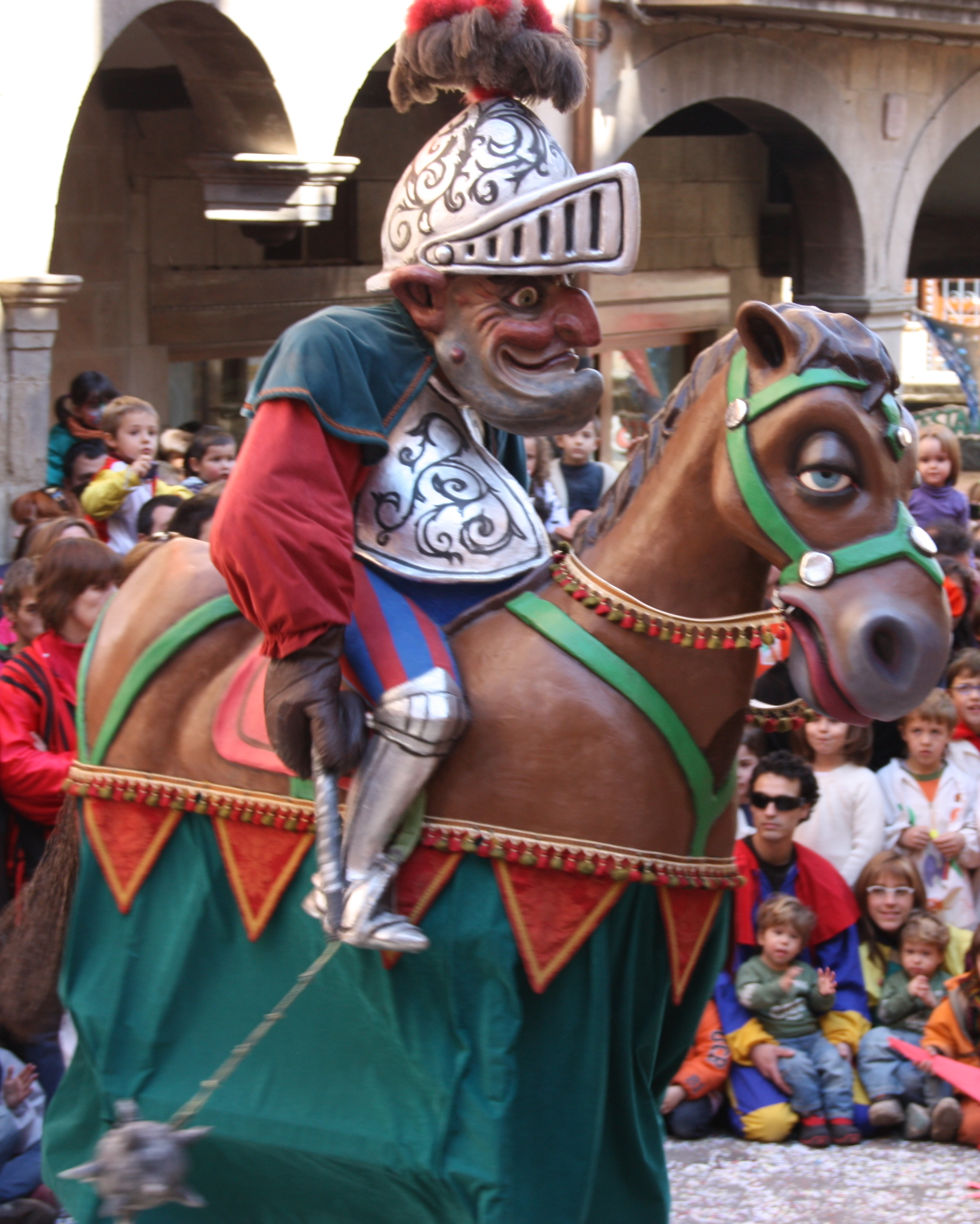 Comte de l'Assaltu giant